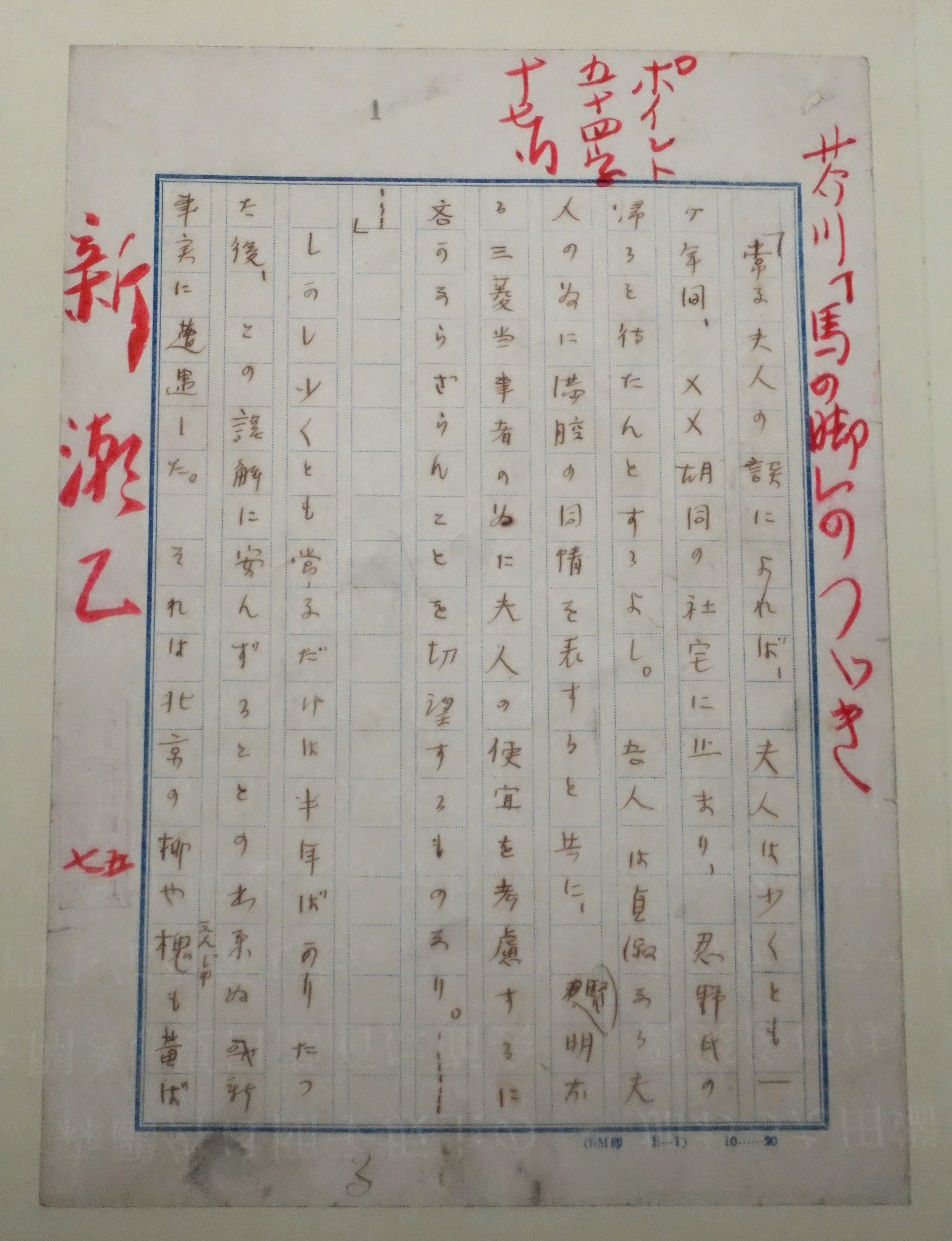 "Leg of the horse", manuscript by Akutagawa Ryunosuke, 1925 AD - Edo-Tokyo Museum - Sumida, Tokyo, Japan.